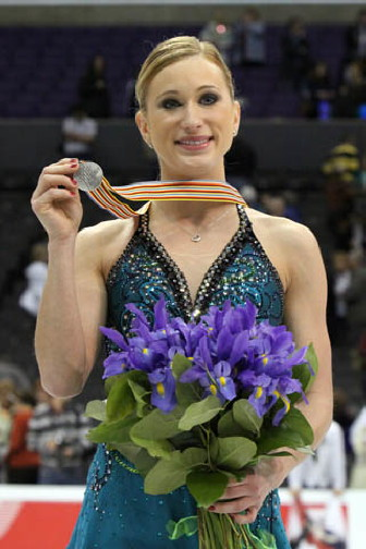 Joannie Rochette (CAN) during the medals ceremony at the 2009 World Figure Skating Champiohships. She won the silver medal.